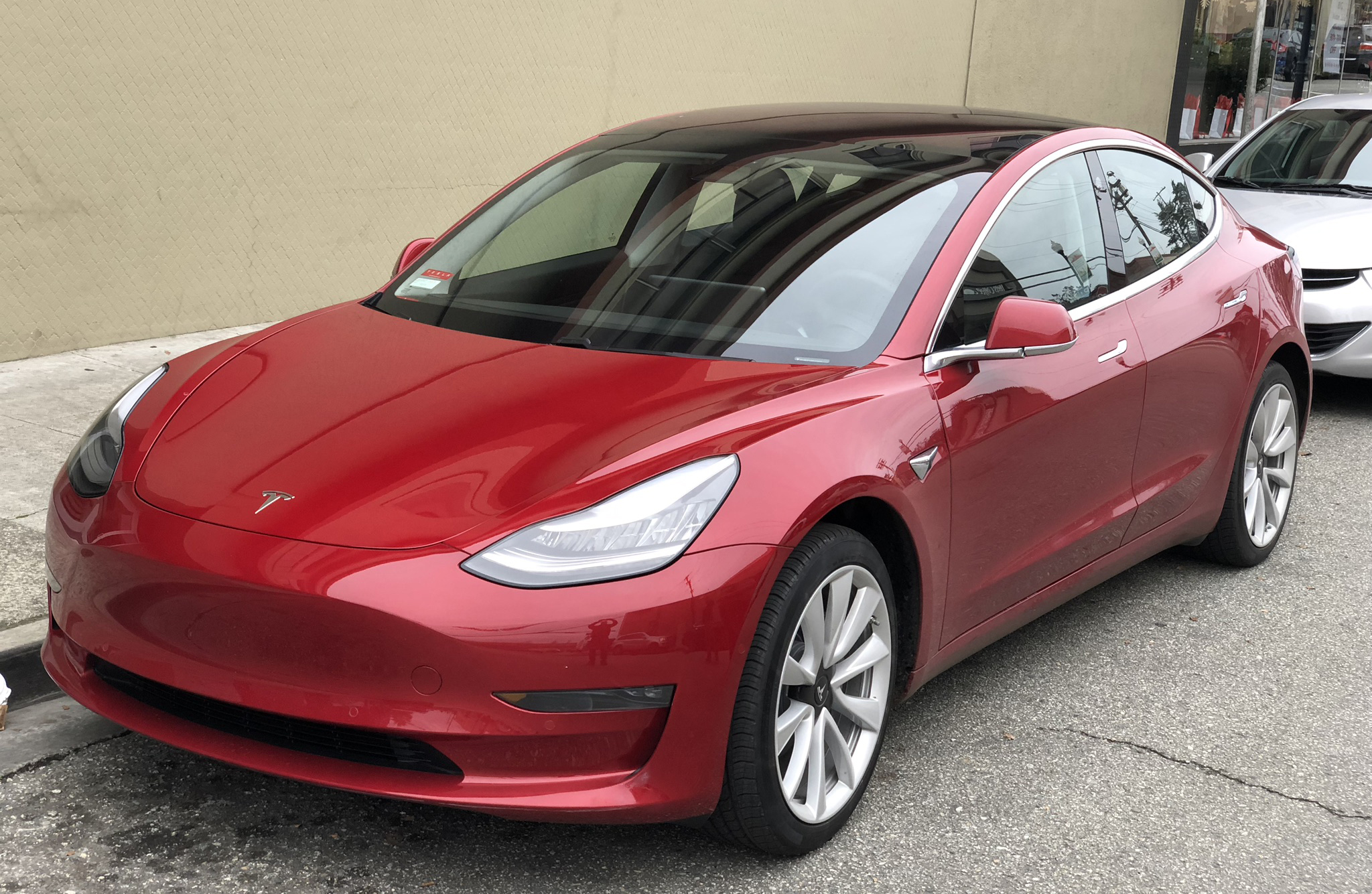 Front view, from driver side.